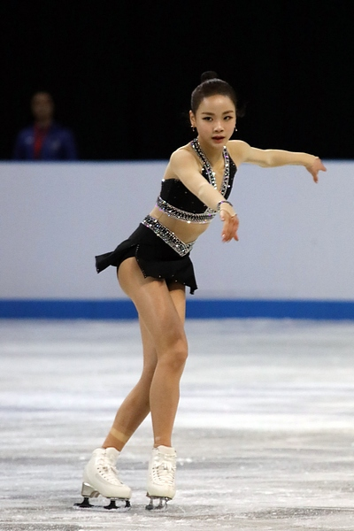 Photos – Junior World Championships 2018 – Ladies (Eunsoo LIM KOR – 5th Place)